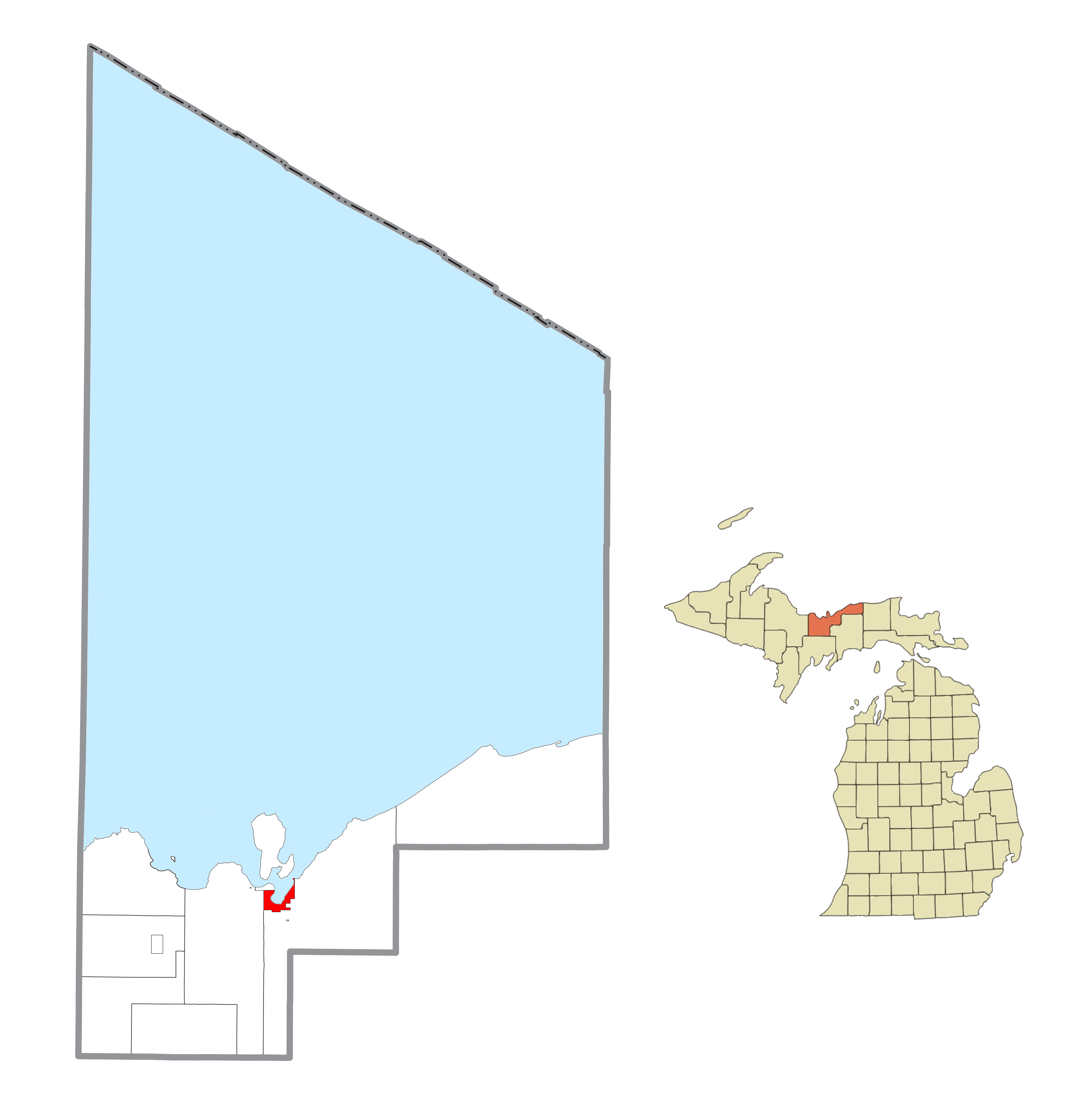 Munising, MI